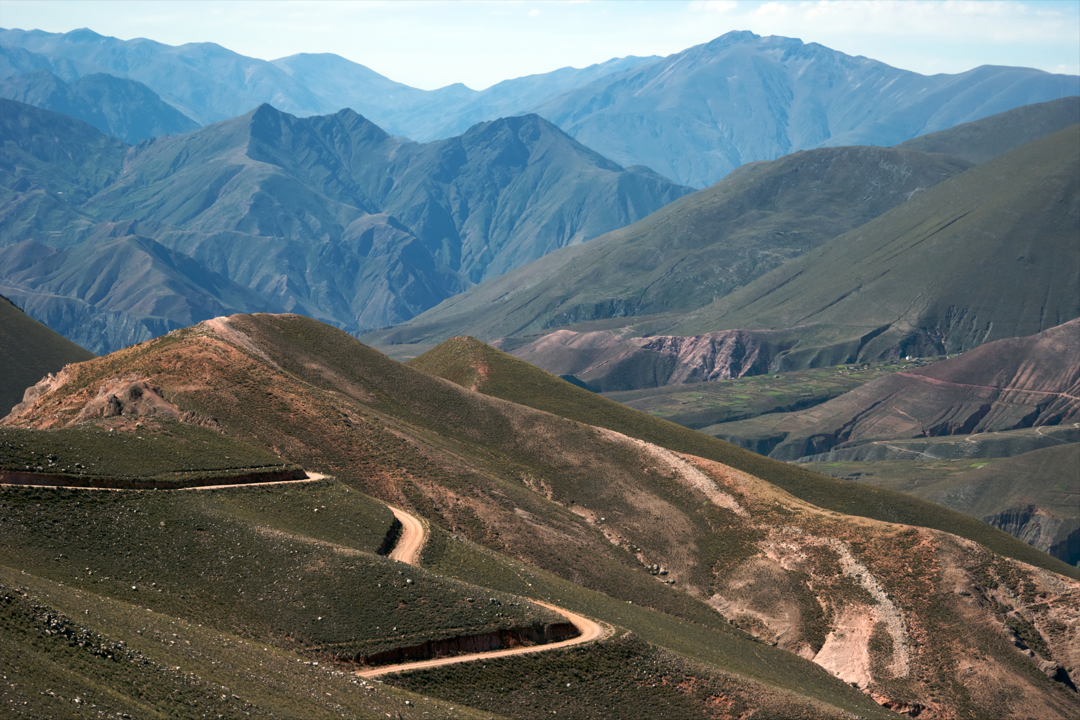 Landscape shot of the Salta region of Argentina